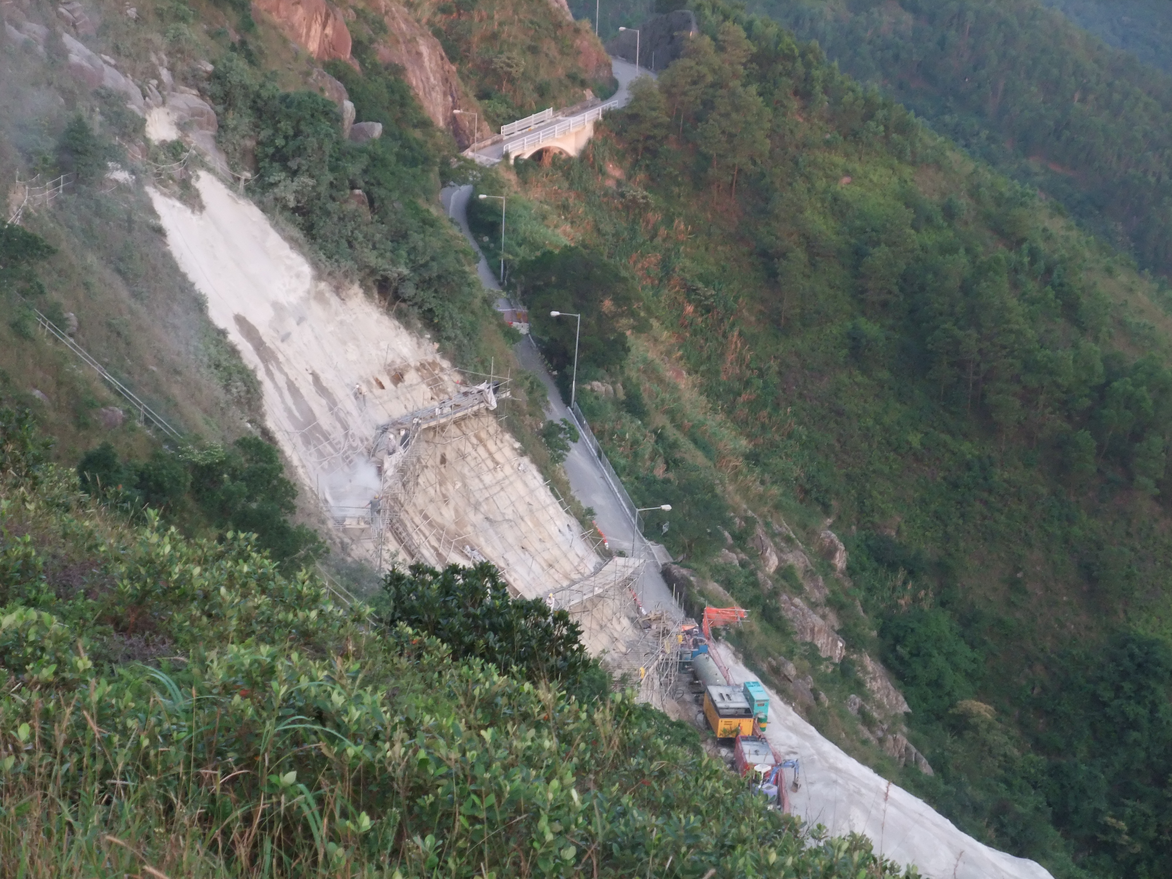 Photo of Shatin Pass Road